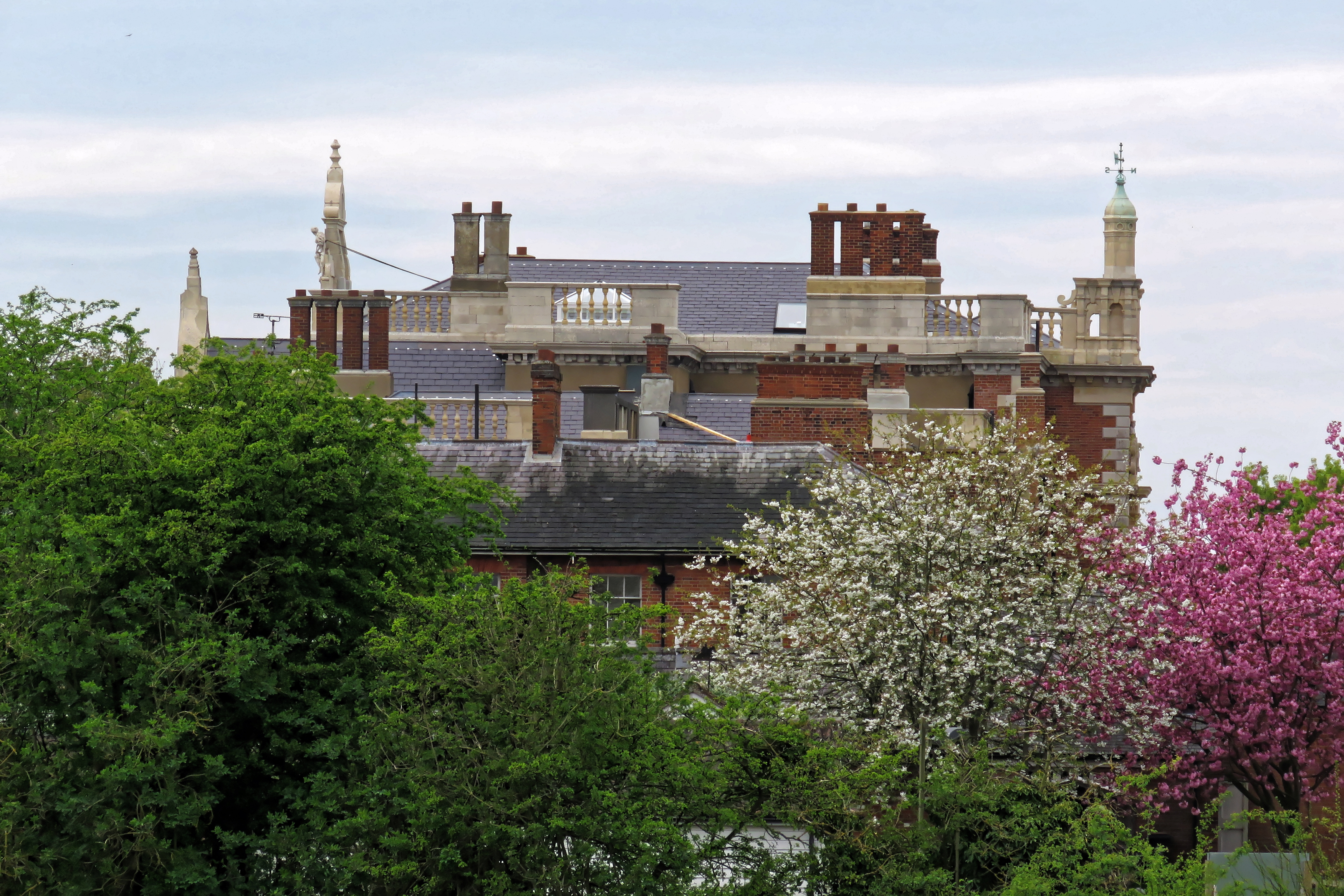 Barrington Hall, a Grade II* listed c.1734 mansion, today offices, from the east, in the civil parish of Hatfield Broad Oak, and 1.5 miles northeast from Hatfield Broad Oak village, in Essex, England.Camera: Canon PowerShot SX60 HSSoftware: File lens-corrected, optimized, perhaps cropped, with DxO OpticsPro 11 Elite, and further optimized with Adobe Photoshop CS2.